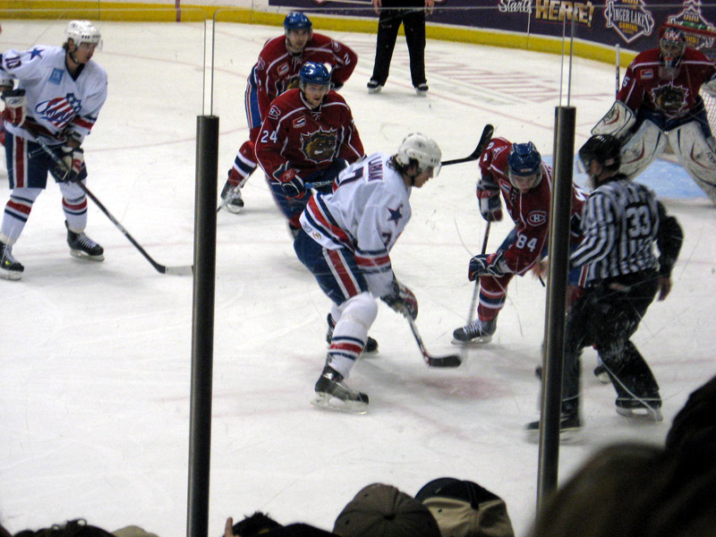 Rochester Americans vs. Hamilton Bulldogs, AHL 2006/2007, #84 Corey Locke